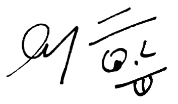 Park Ji-hoon signature